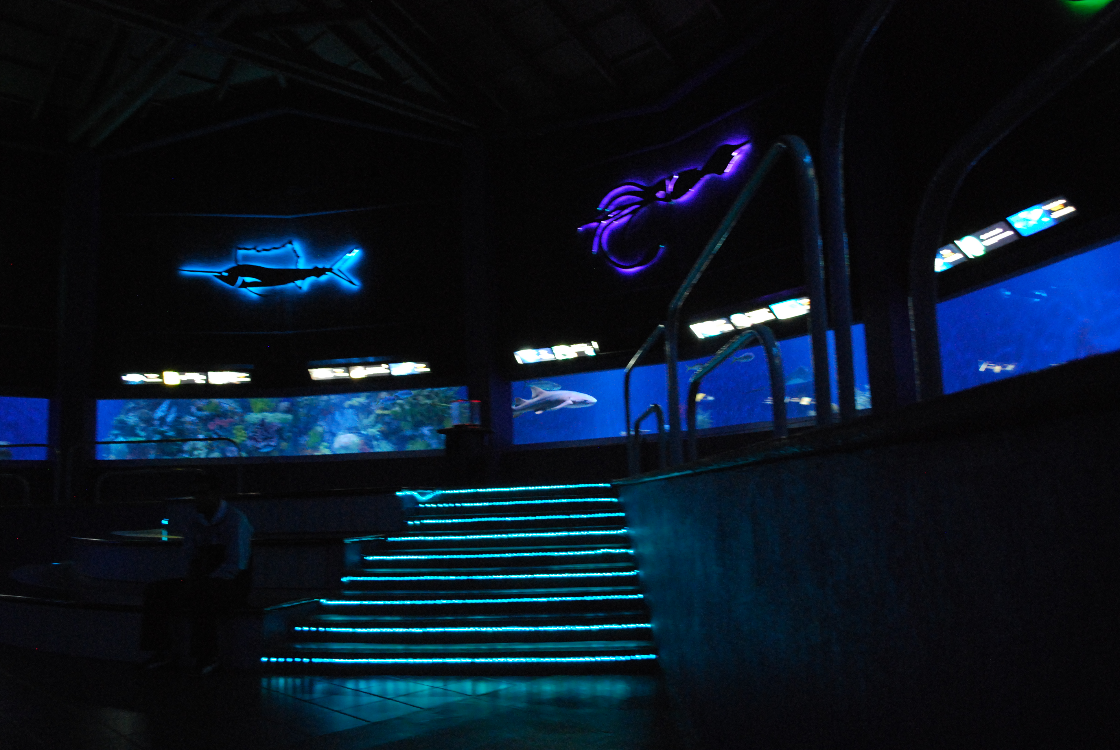 Space inside circular tank at the Aquarium of Veracruz, Mexico